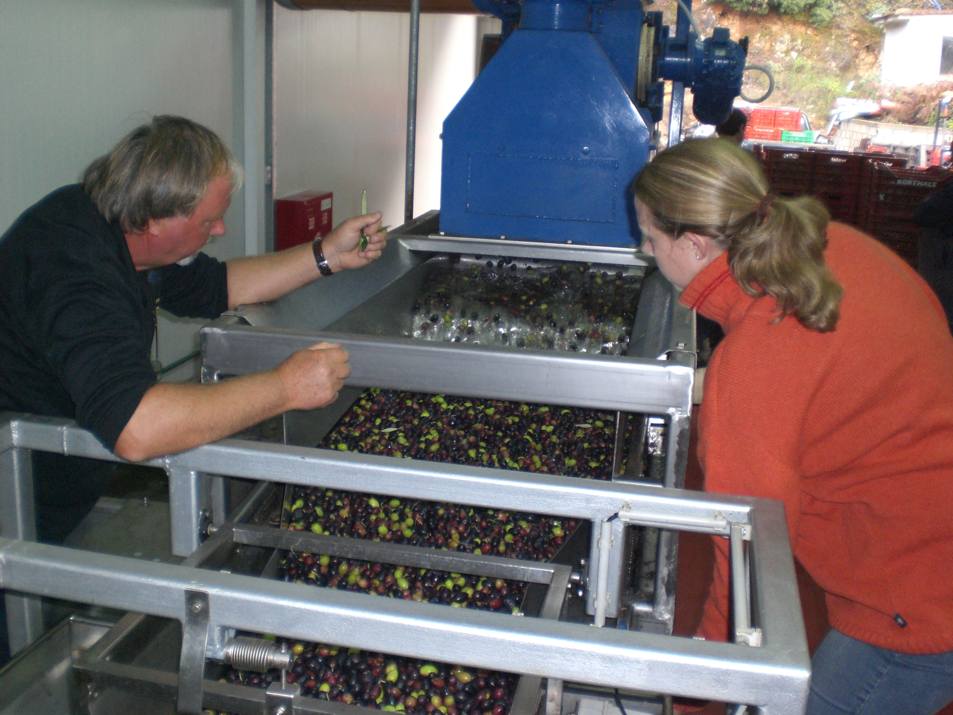 washing of olives